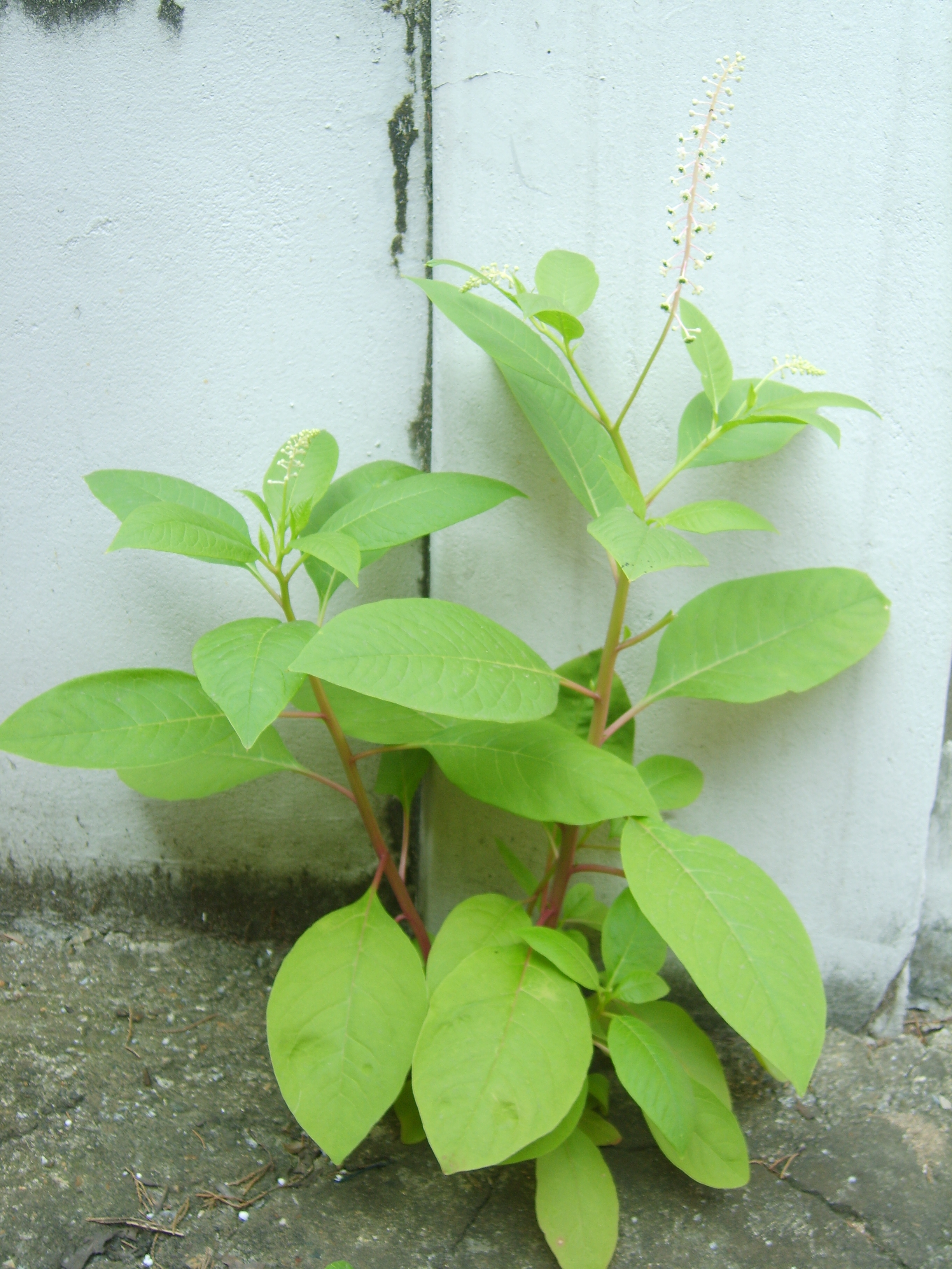 Phytolacca americana in Bupyung, Korea